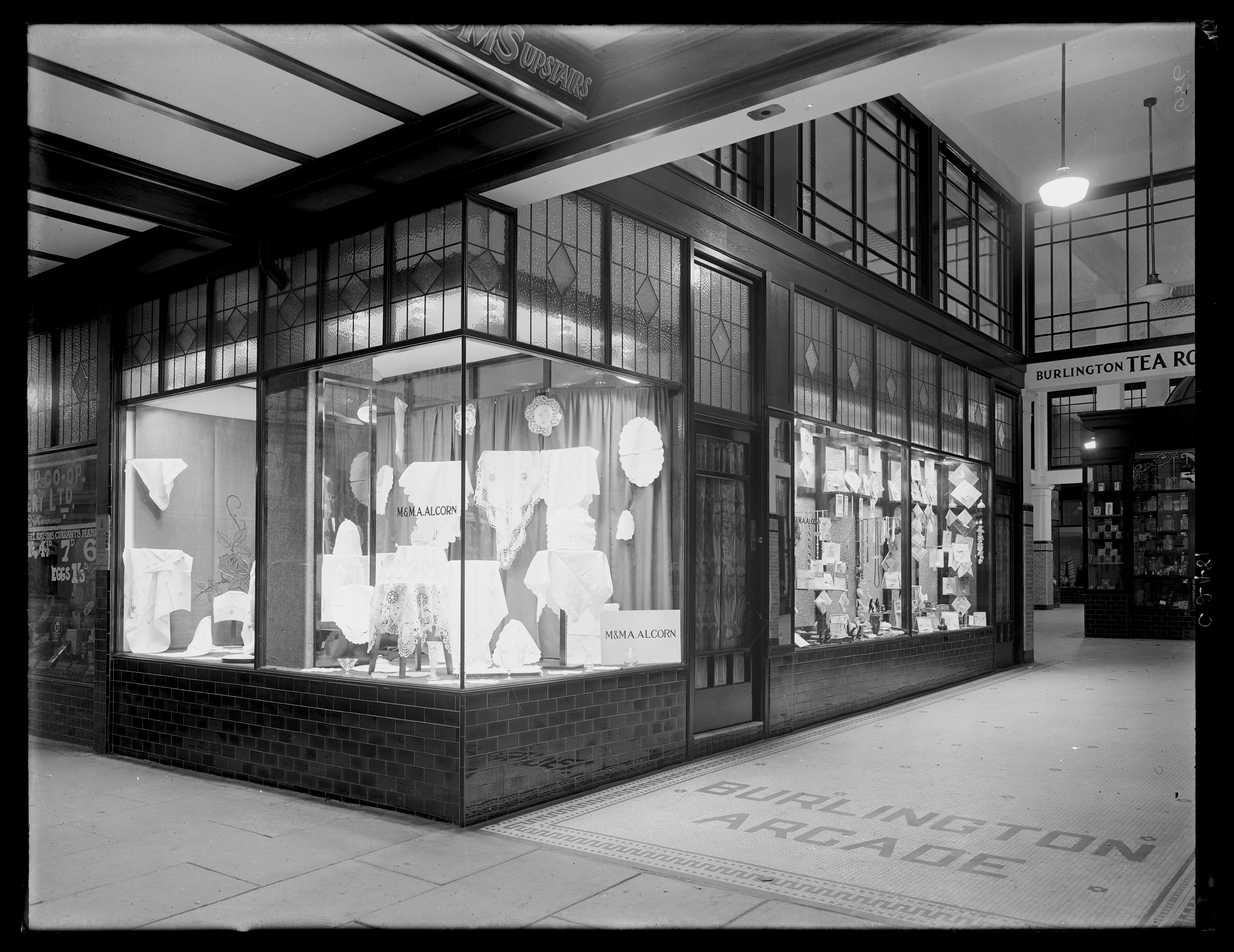 C002481.tif